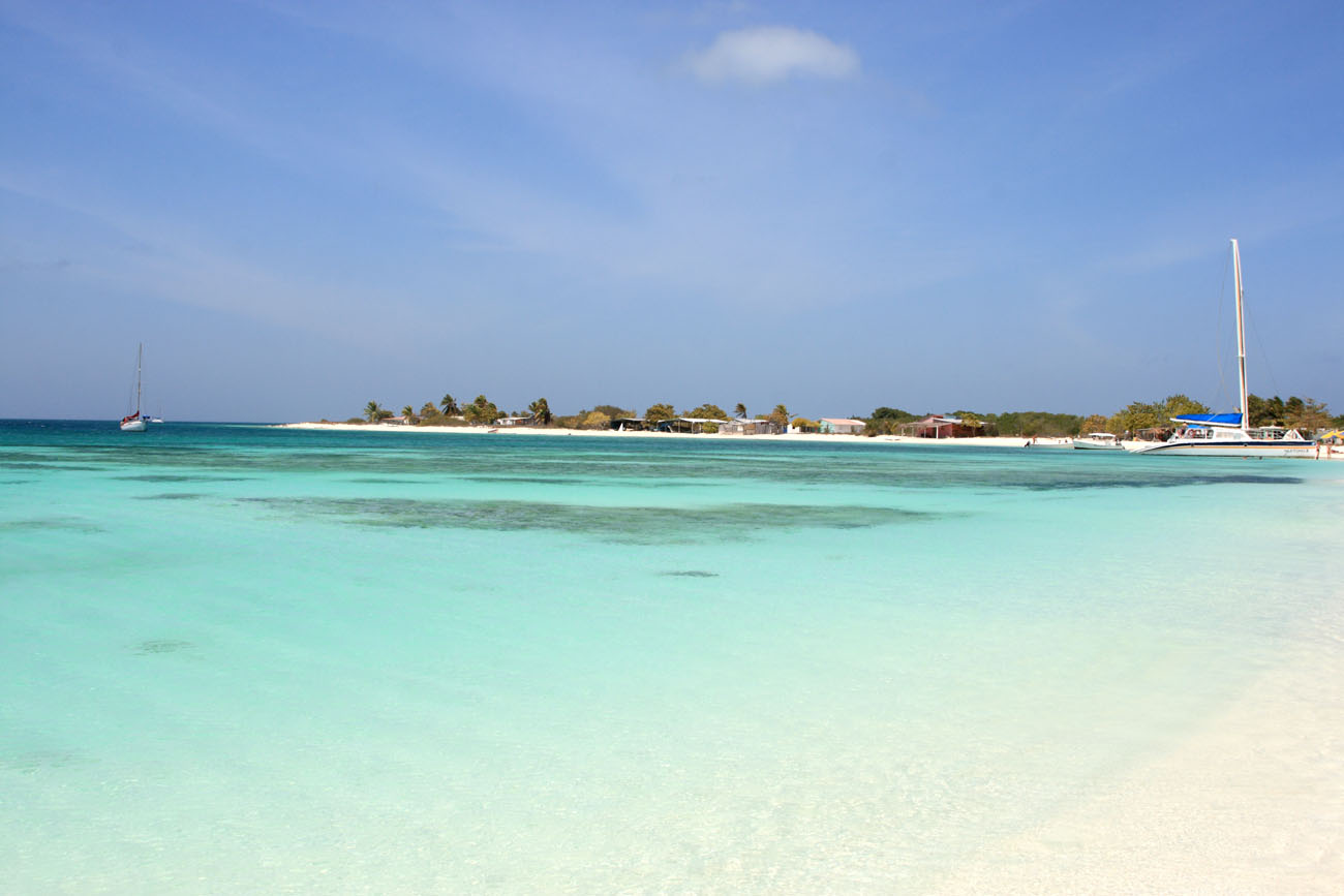 Island Crasqui, Los Roques archipelago